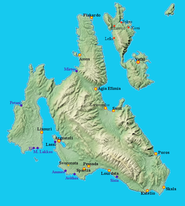 Cephalonia map